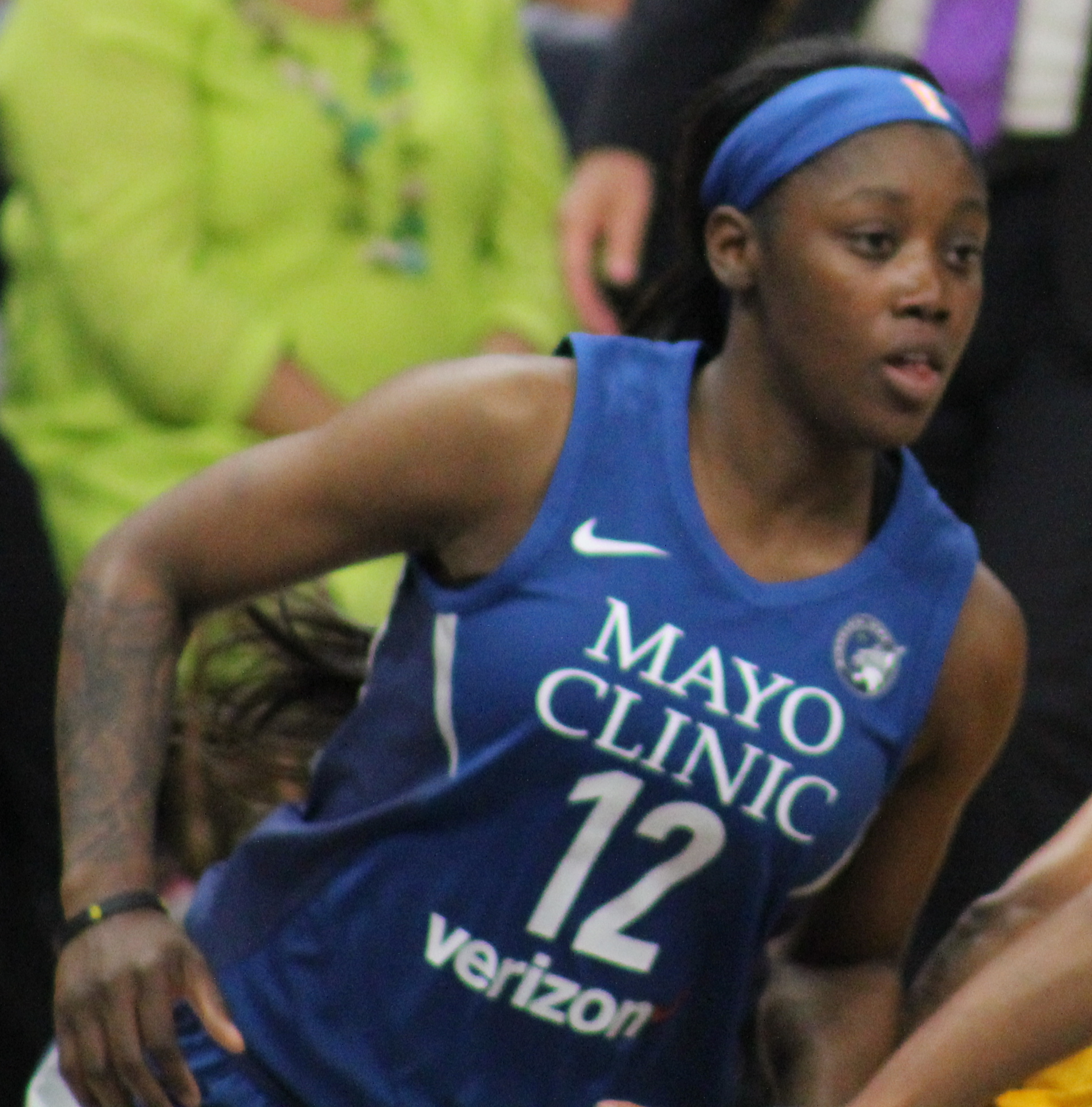 Alexis Jones of the Minnesota Lynx in 2018